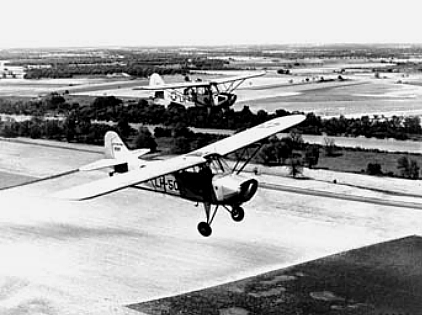 Two U.S. Army Aeronca L-16 liaison aircraft in flight.